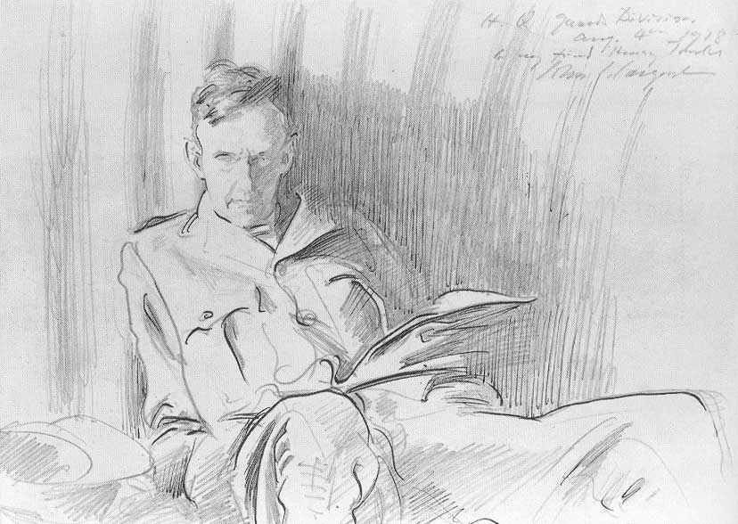 Henry Tonks